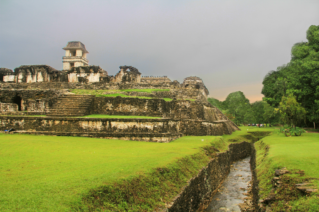 The Palace at Palenque on the left with the aqueduct on the right.